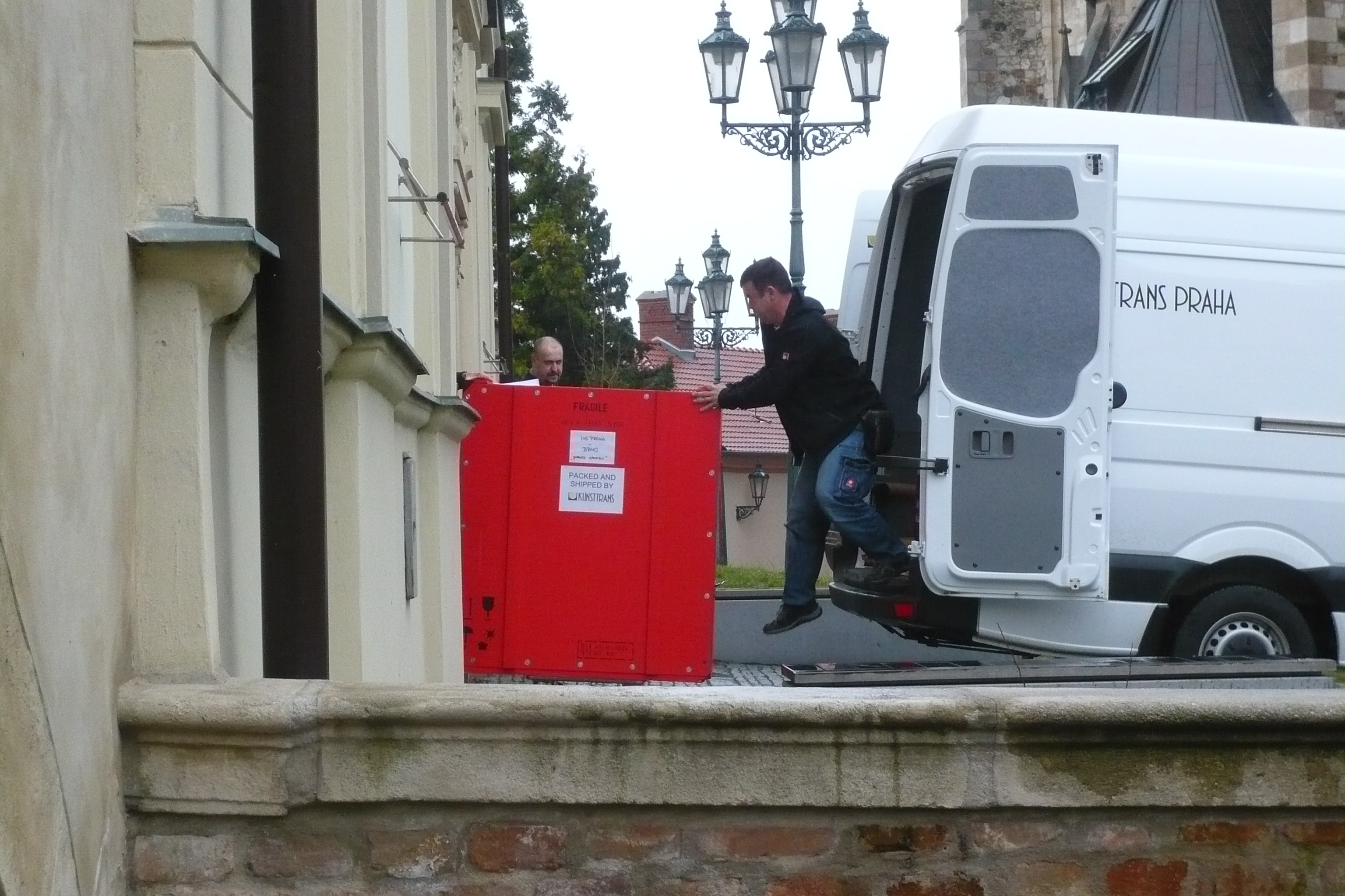 Tranfer Madona of Veveří to Diocesian Museum of Brno 7.3. 2016